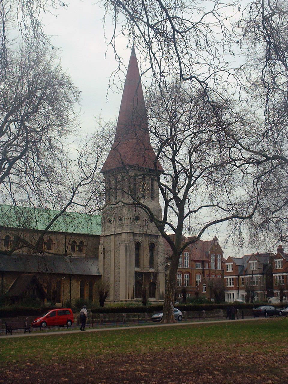 See where this photo was taken at maps.yuan.cc/.